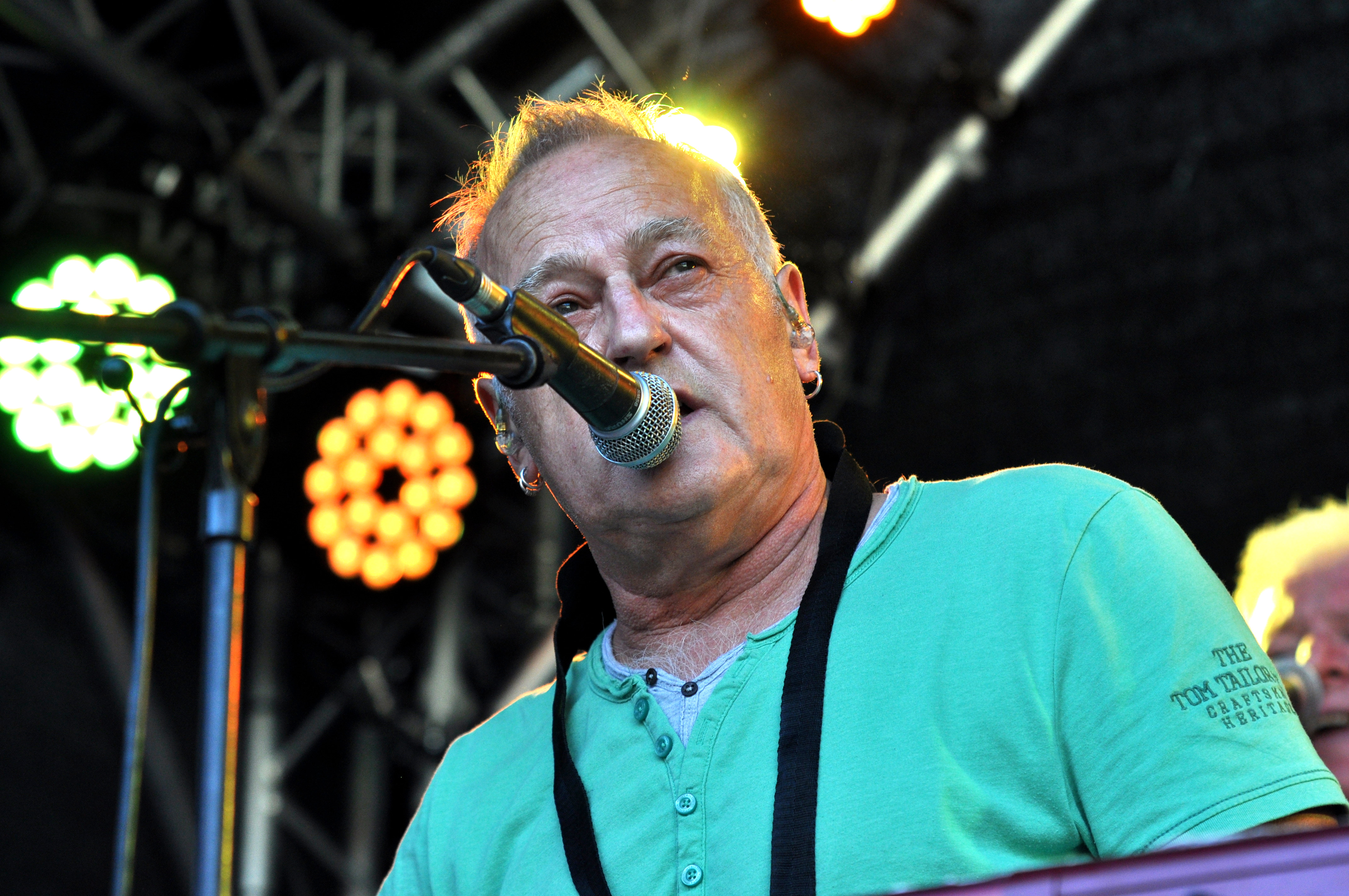 Grachmusikoff (DEU) appearance at the 2017 blacksheep festival at Bonfeld castle, Bad Rappenau, Baden-Wuerttemberg, Germany Festivalsommer This photo was created with the support of donations to Wikimedia Deutschland in the context of the CPB project "Festival Summer".